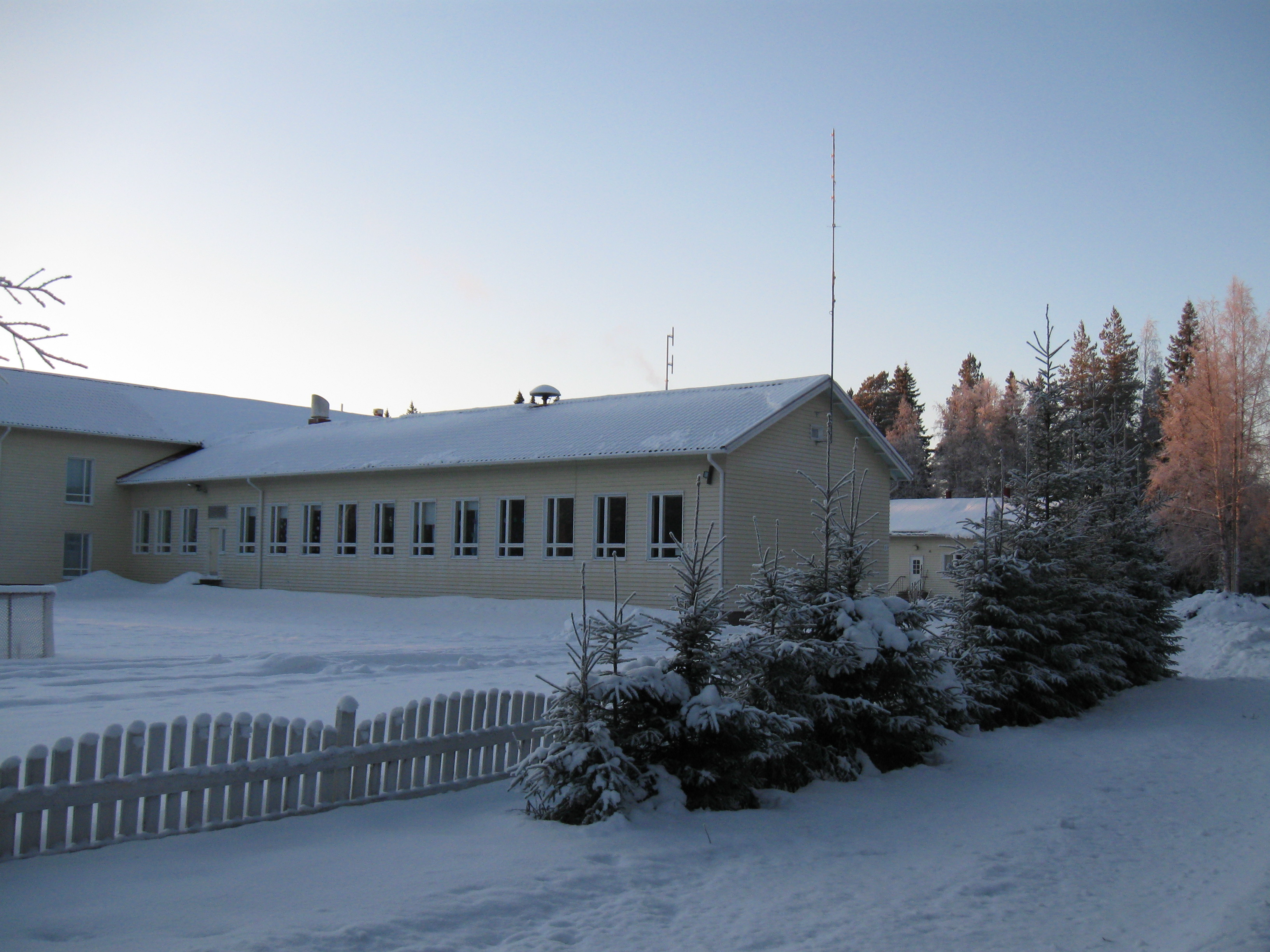 The school building of the Sanginkylä village in Utajärvi, Finland